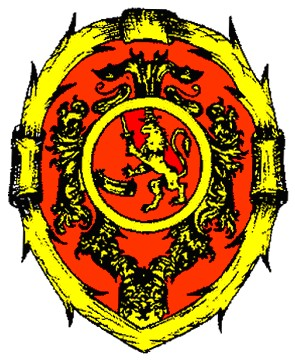 Coat of Arms of Kazimir, Belarus.